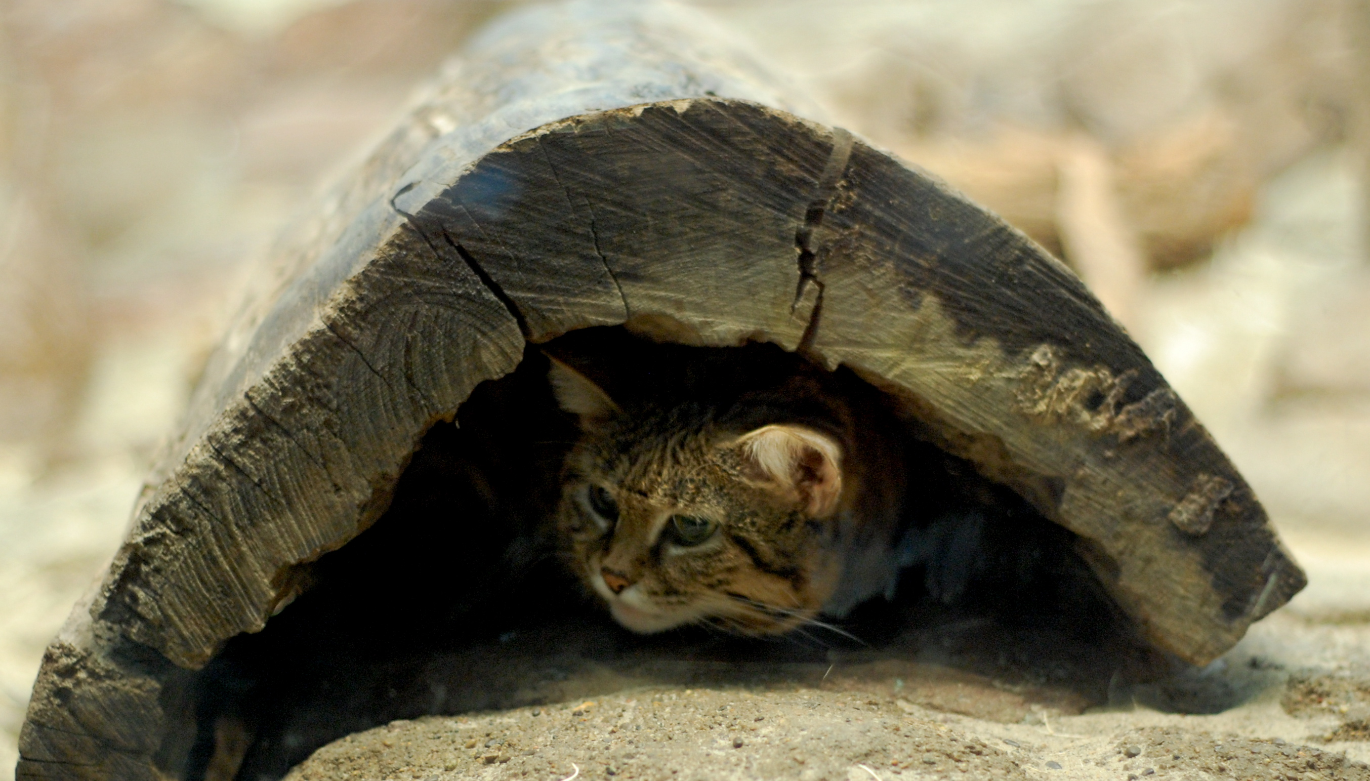 Suspicious Black-Footed Cat